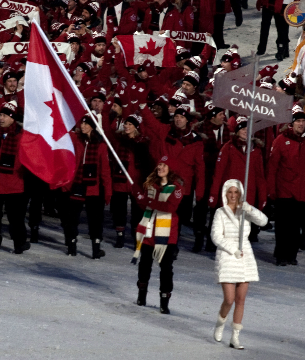 Clara Hughes carrying the Canadian flag at the opening ceremonies of the 2010 Winter Olympics.